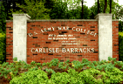 Sign reading "U.S. Army War College" and "Carlisle Barracks"